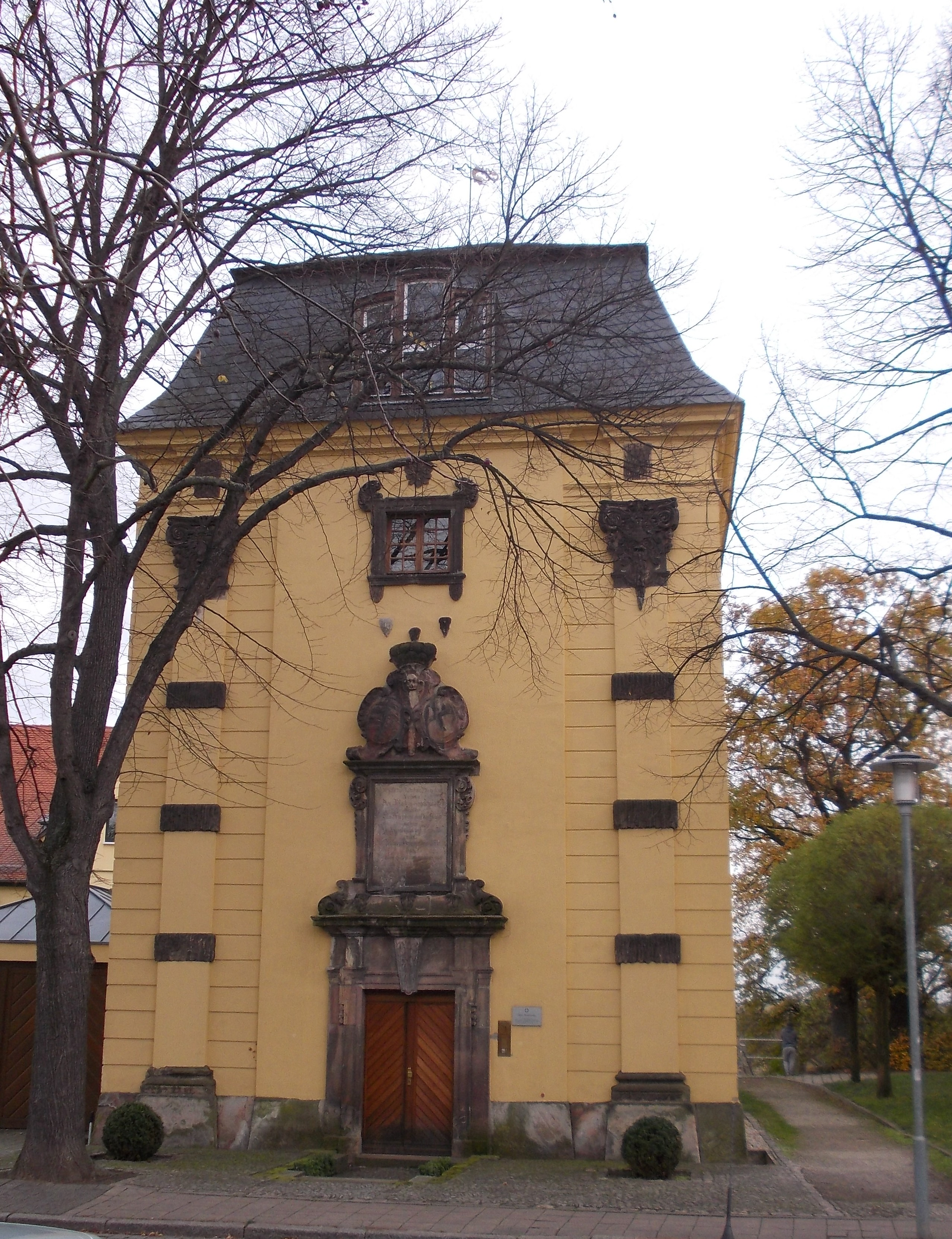 Upper Water Art Building in Merseburg (district: Saalekreis, Saxony-Anhalt)